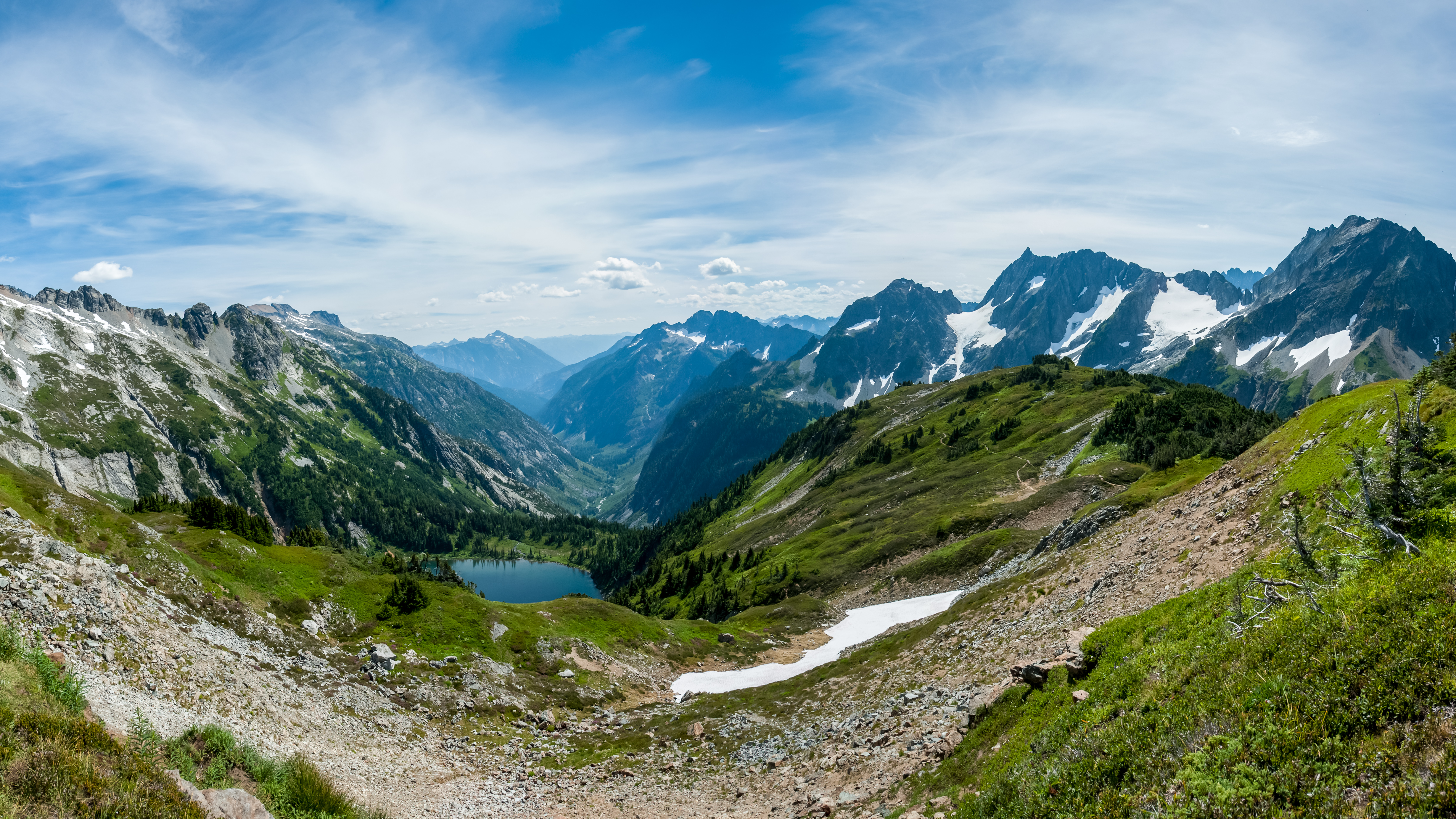 Sahale Mountain, United States